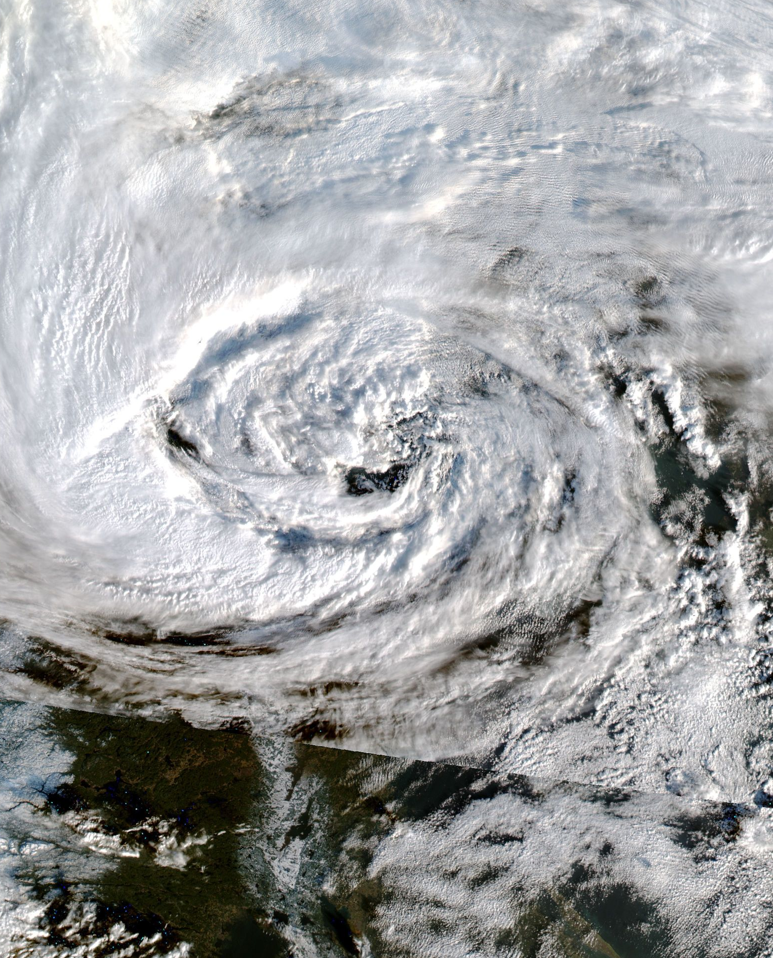 Storm Clodagh on 30 November 2015.